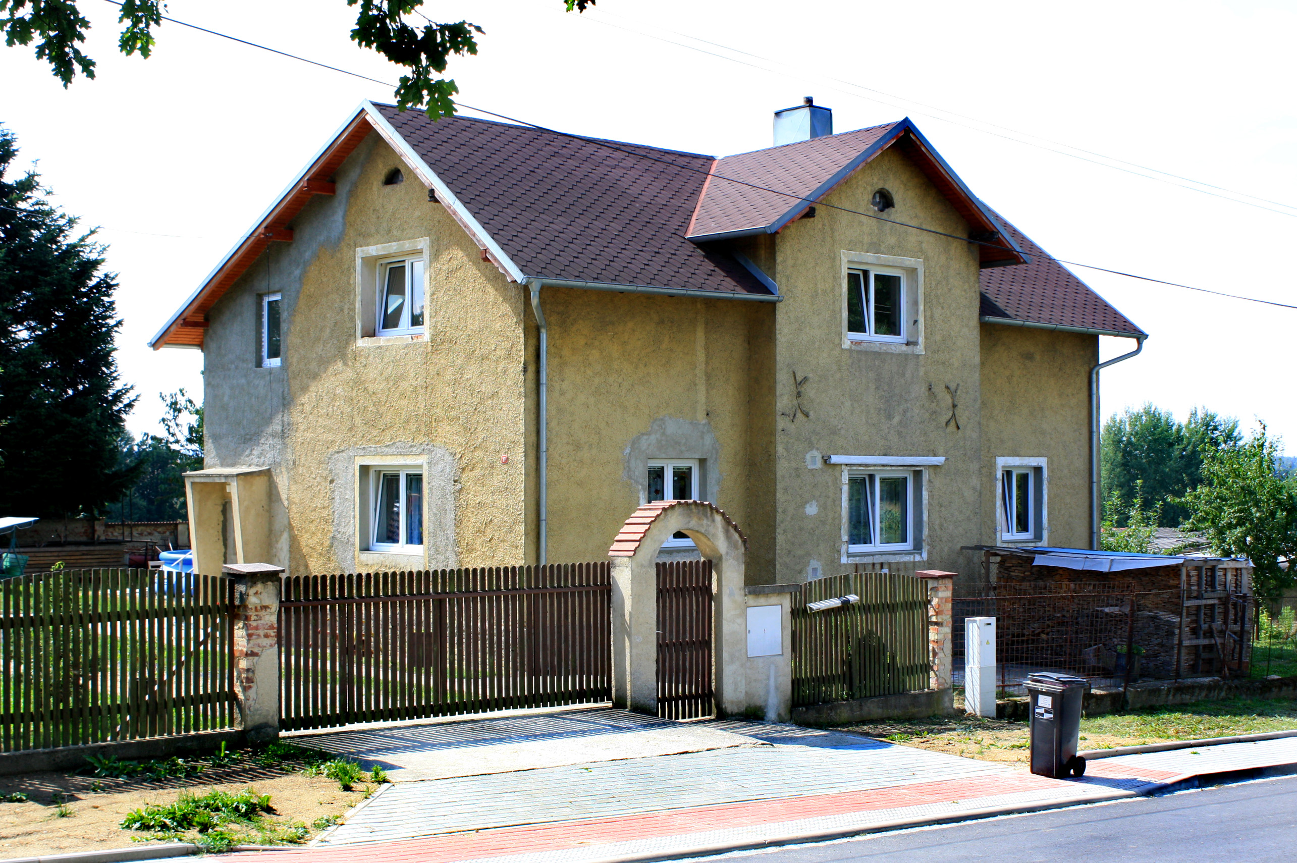 North part of Okrouhlá, Czech Republic